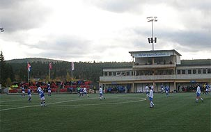 Picture of Sundbana Norsk (bokmål): Bilde av Sundbana